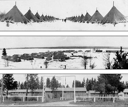 Civilian Conservation Corps camps of Michigan. From top to bottom: Camp Newberry in Luce County, Michigan shortly after it was established Camp Newberry with more permanent buildings A white rail fence marking the entrance to Camp Au Sale in Grayling, Michigan.